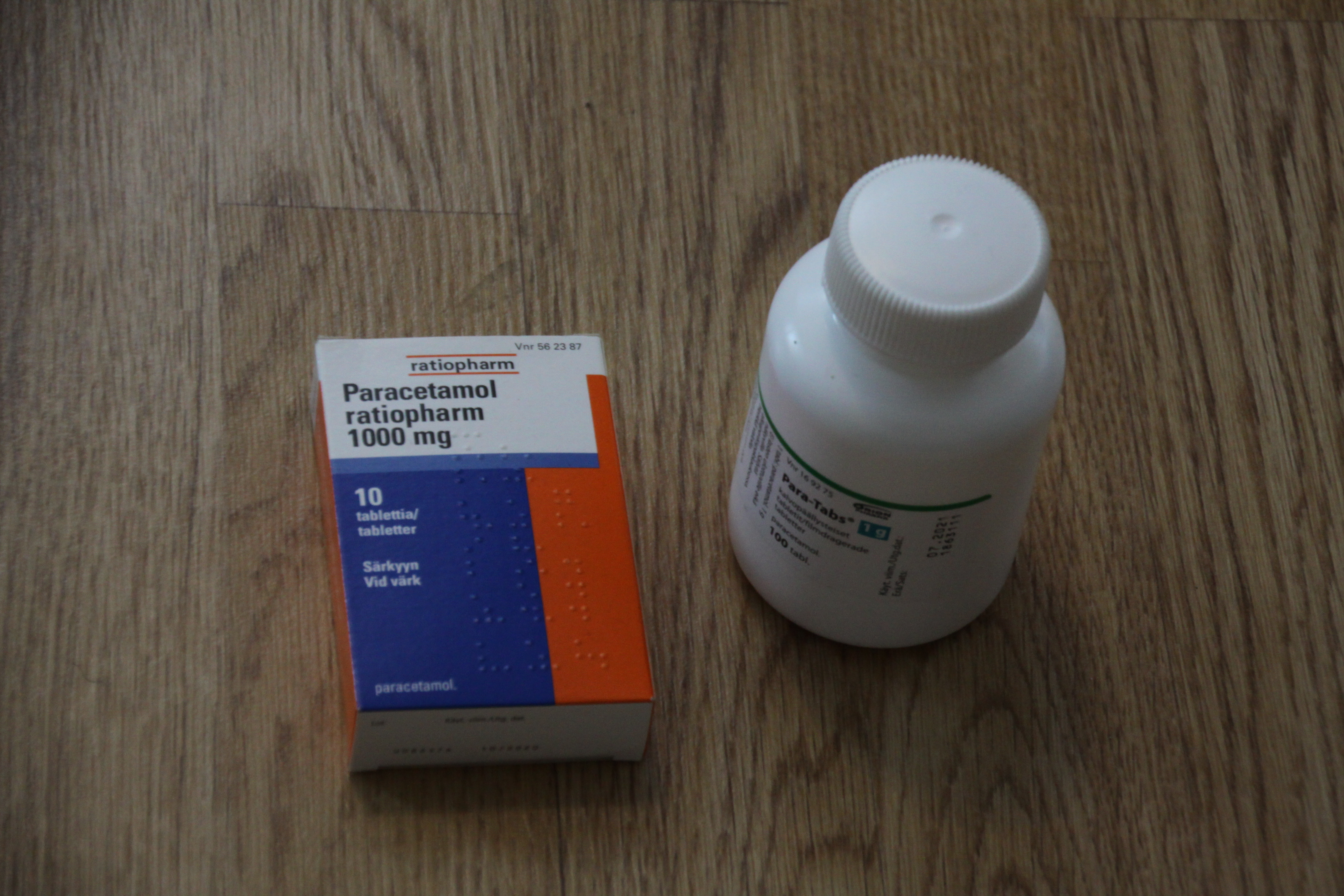 Paracetamol based painkillers.